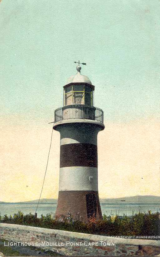 Postcard with photograph of Mouille Point Lighthouse, colour added by author.